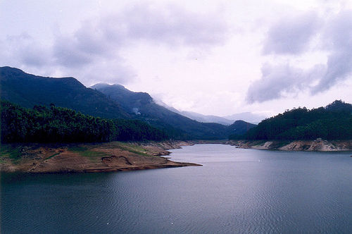 The Mansbal Lake near Jammu, India